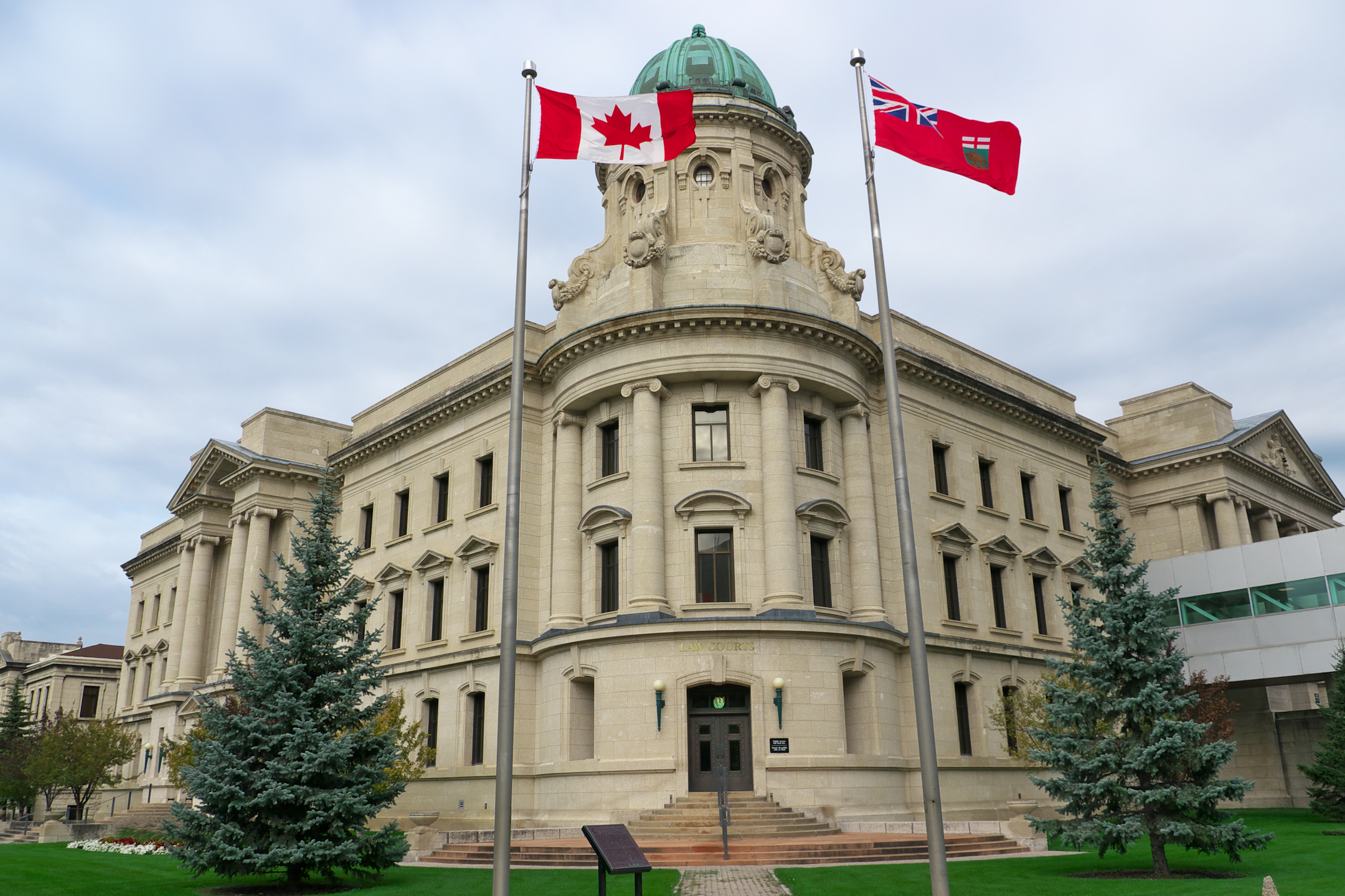 Provincial Law Courts